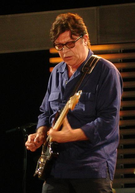 Robbie Robertson performing on stage at the Crossroads Guitar Festival 2007